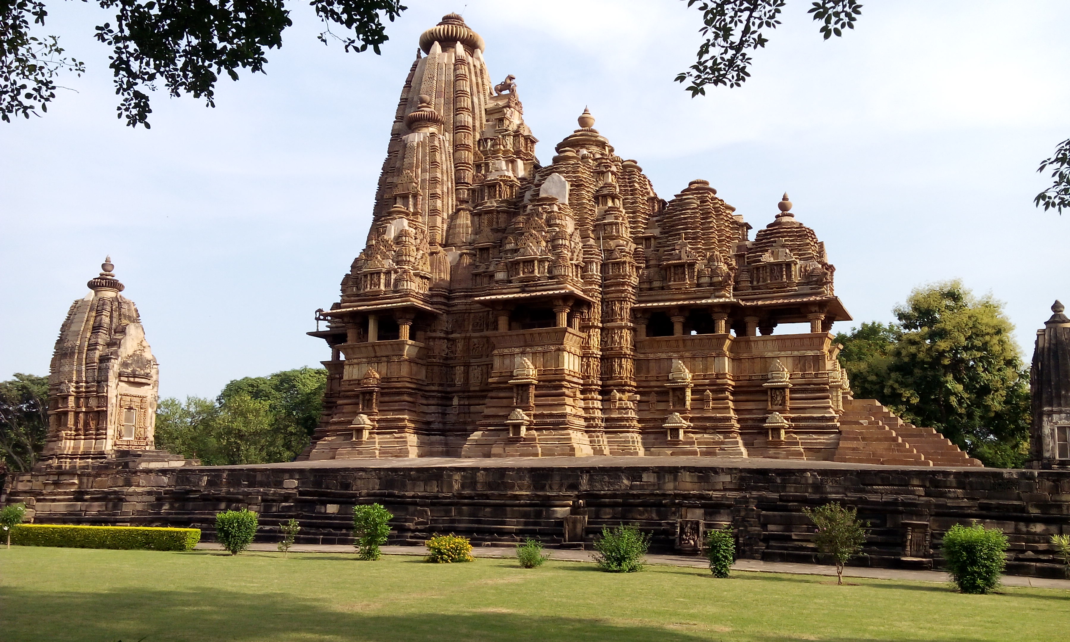 vishvnath temple (khajuraho)